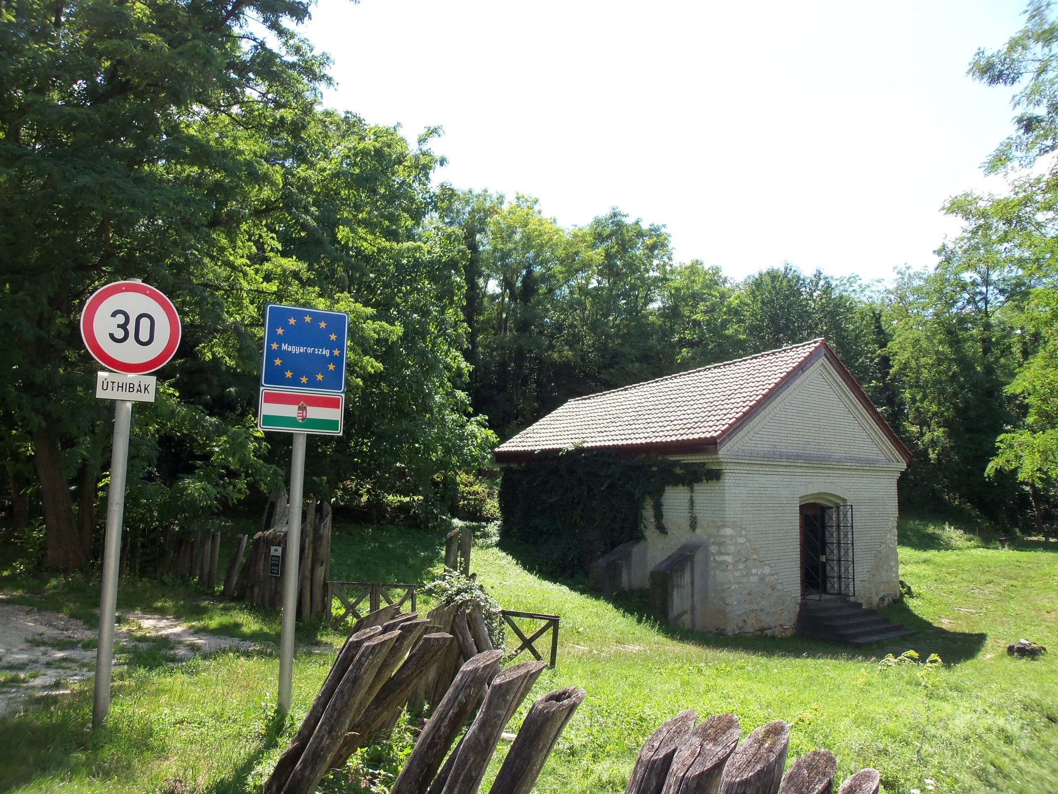 Temple of Mithras and border sign, Fertőrákos, Hungary